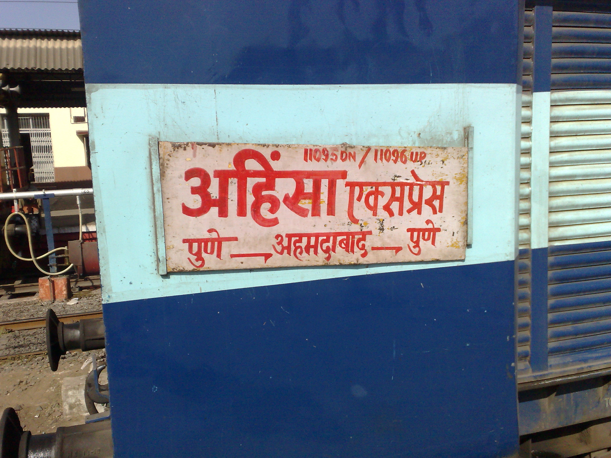 11095 Ahimsa Express trainboard